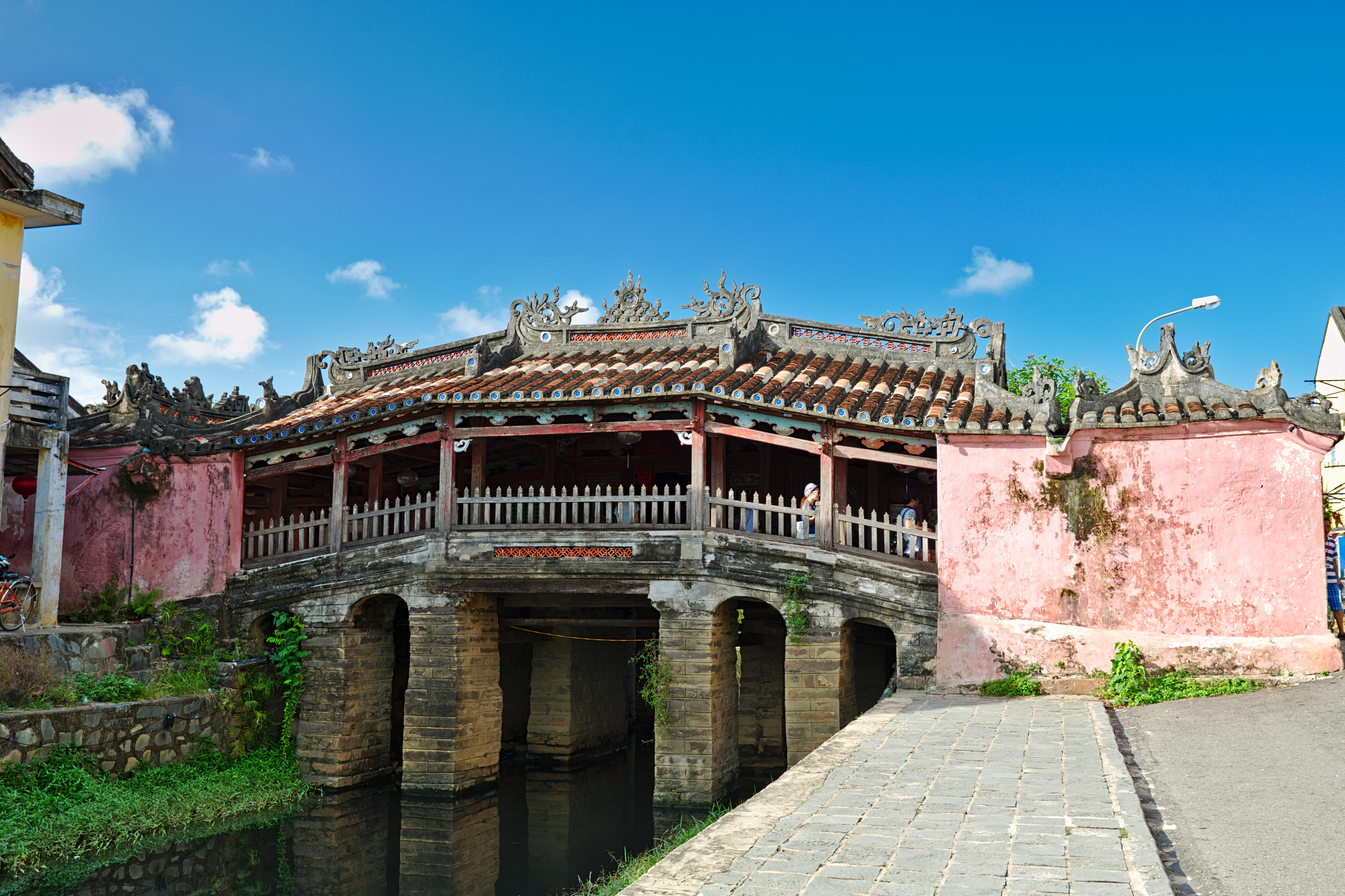 Japanese bridge, Hội An